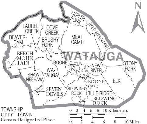 Map of Watauga County, North Carolina, United States with township and municipal boundaries